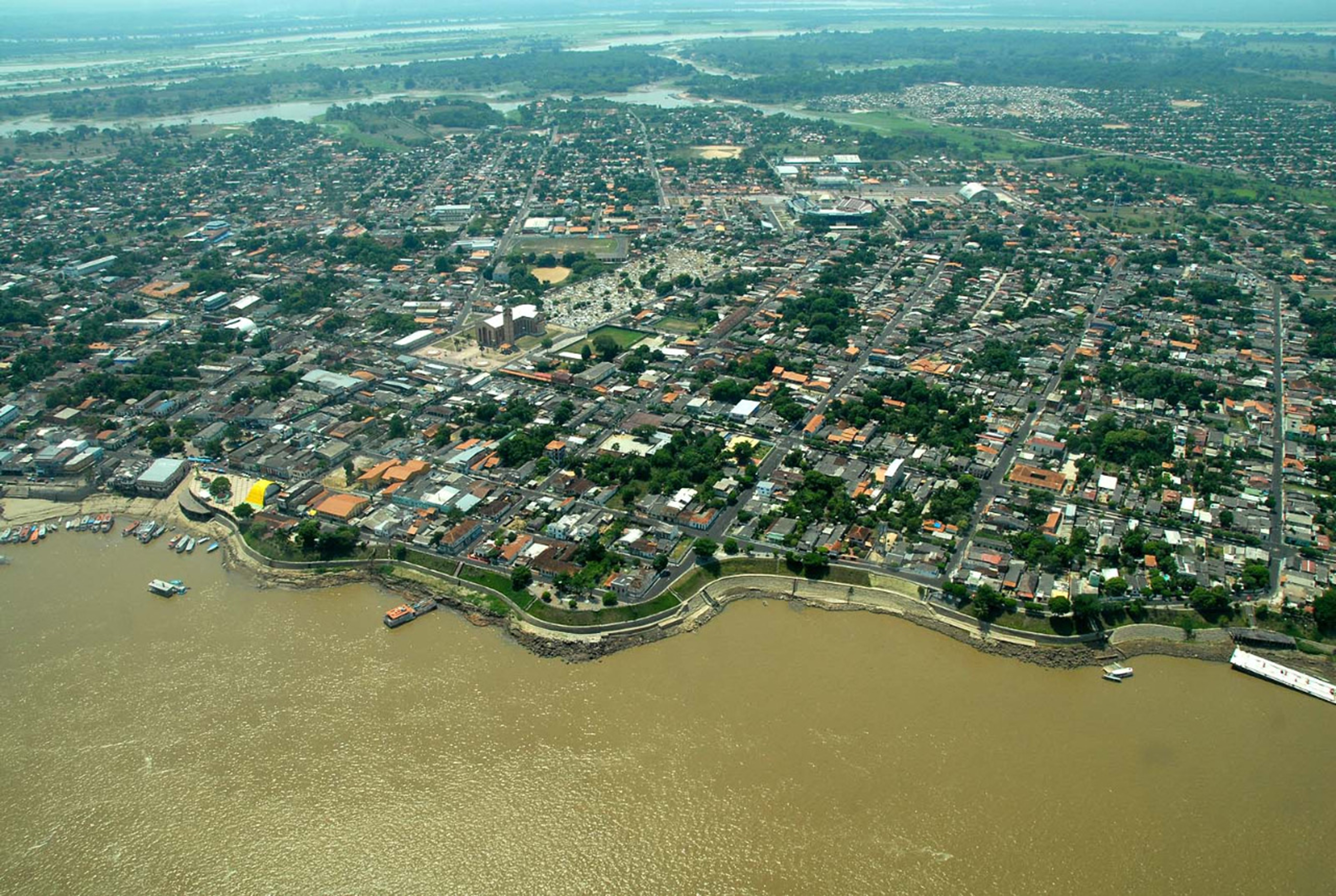 The famous Brazilian city of Parintins, located in the state of Amazonas. Every year the Folk Festival takes place, which attracts tourists from all over the world.